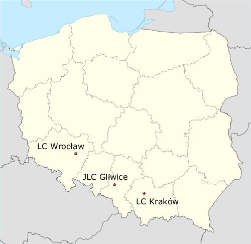 Map of Polish EESTEC Local Committees